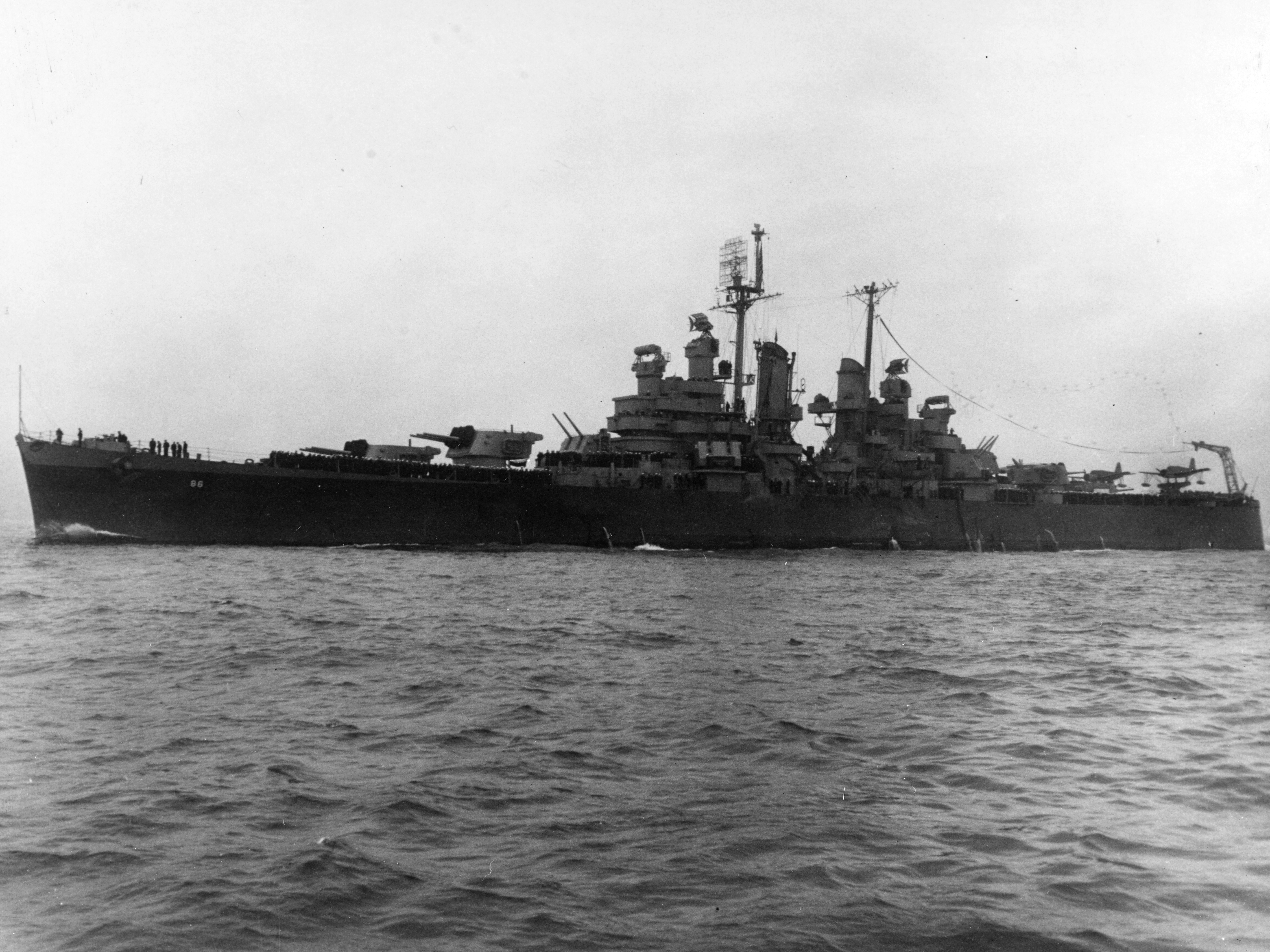 The U.S. Navy light cruiser USS Vicksburg (CL-86) arrives off San Francisco, California (USA), soon after the end of World War II, probably in October 1945. She is flying a long "homeward bound" pennant from her mainmast.